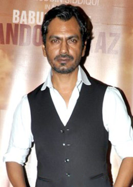 Nawazuddin Siddiqui at Babumoshai Bandookbaaz's success bash.